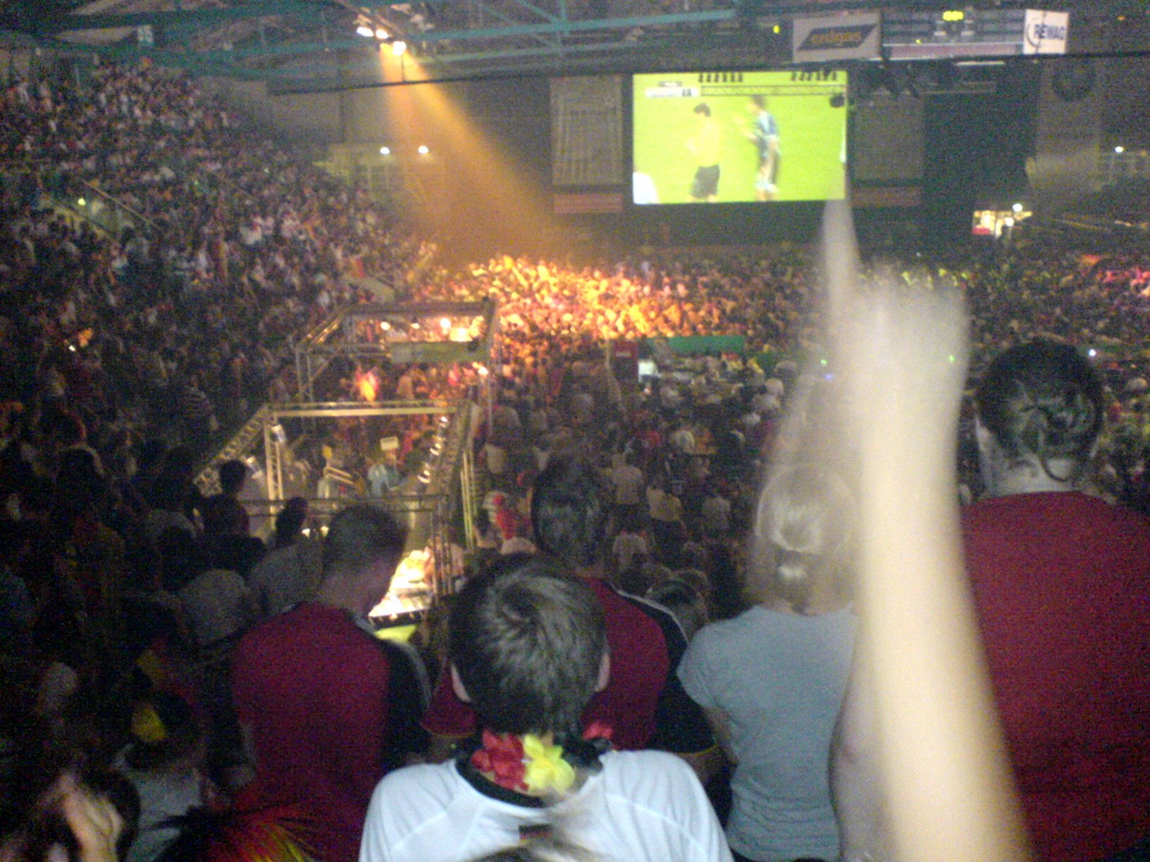 Screening of the match Germany vs. Argentina (World Cup 2006) at the Donau Arena in Regensburg.